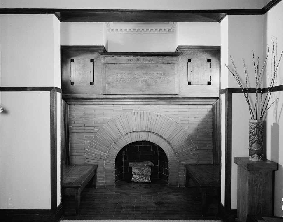 Fireplace, Frank Lloyd Wright Home and Studio